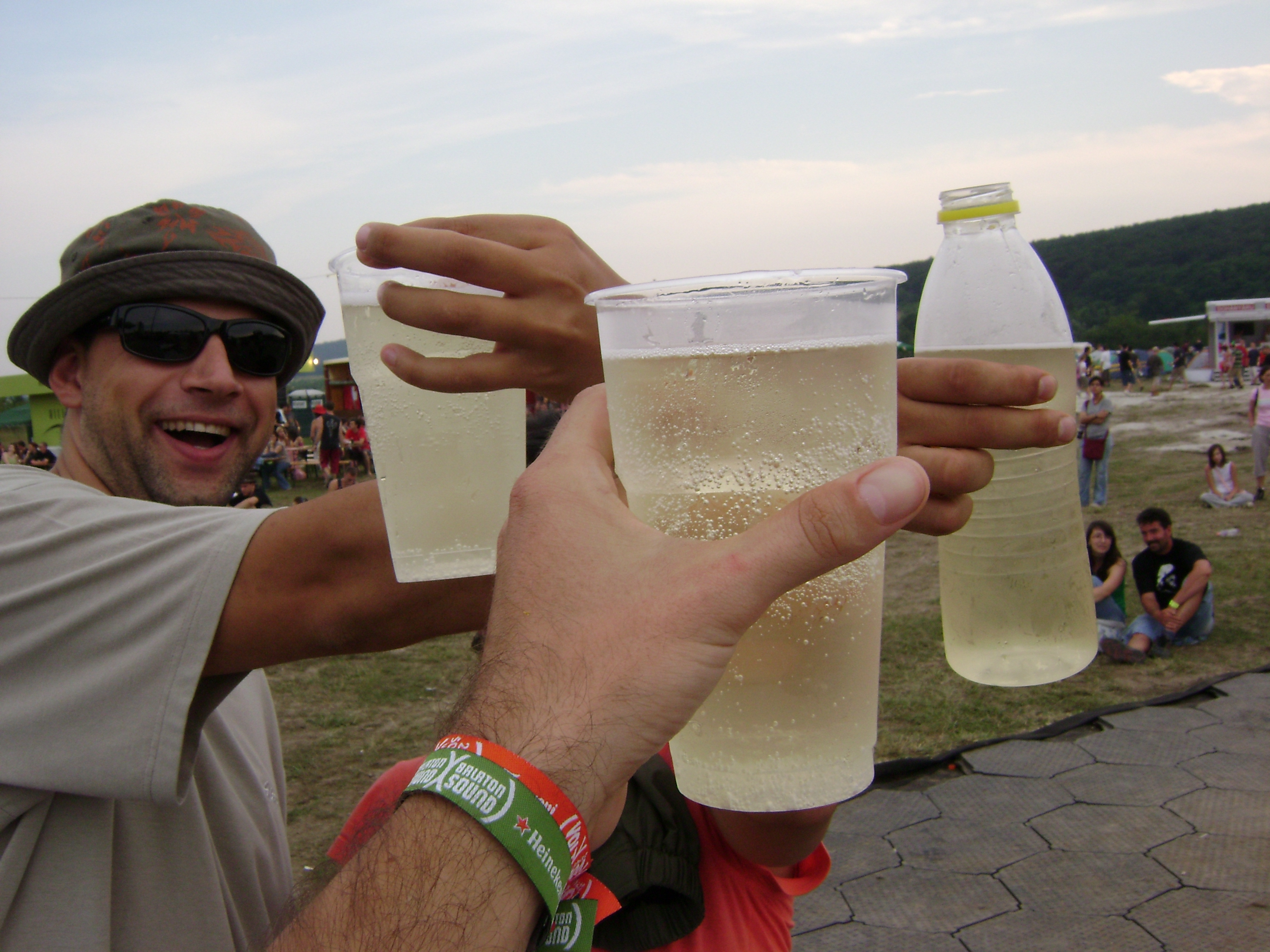 People with spritzer on a festival in Hungary